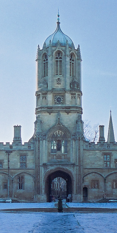 Tom Tower at Christ Church, Oxford. This is a crop from a larger image of Tom Quad.